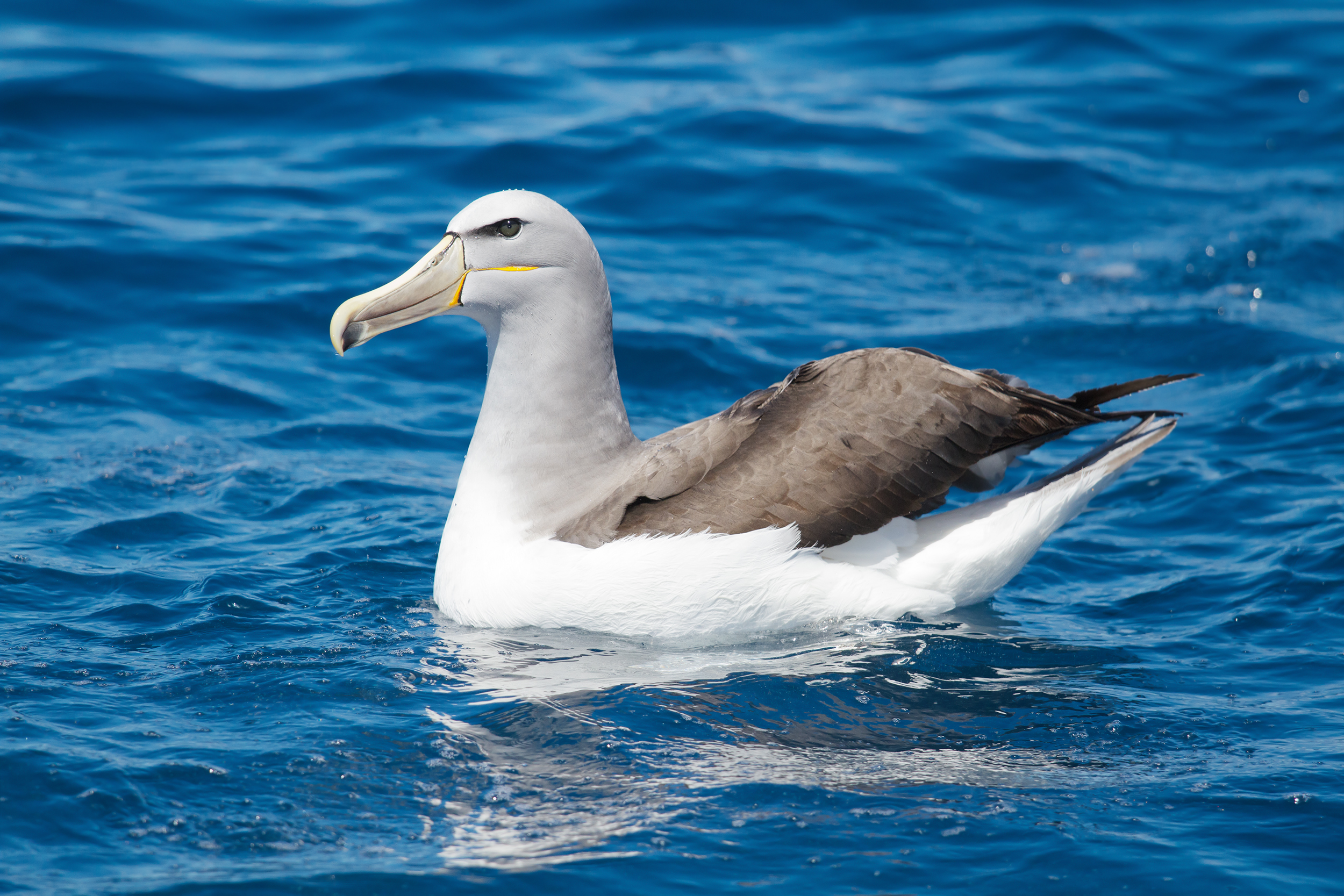 Salvin's Albatross (Thalassarche salvini), East of the Tasman Peninsula, Tasmania, Australia